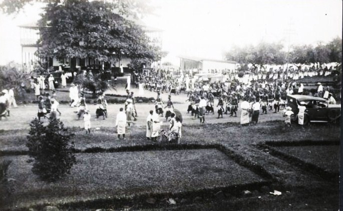 Mau demonstration in Apia, 1929, Samoa. Gagana Samoa: Solo tete'e a le Mau i Apia, 1929.